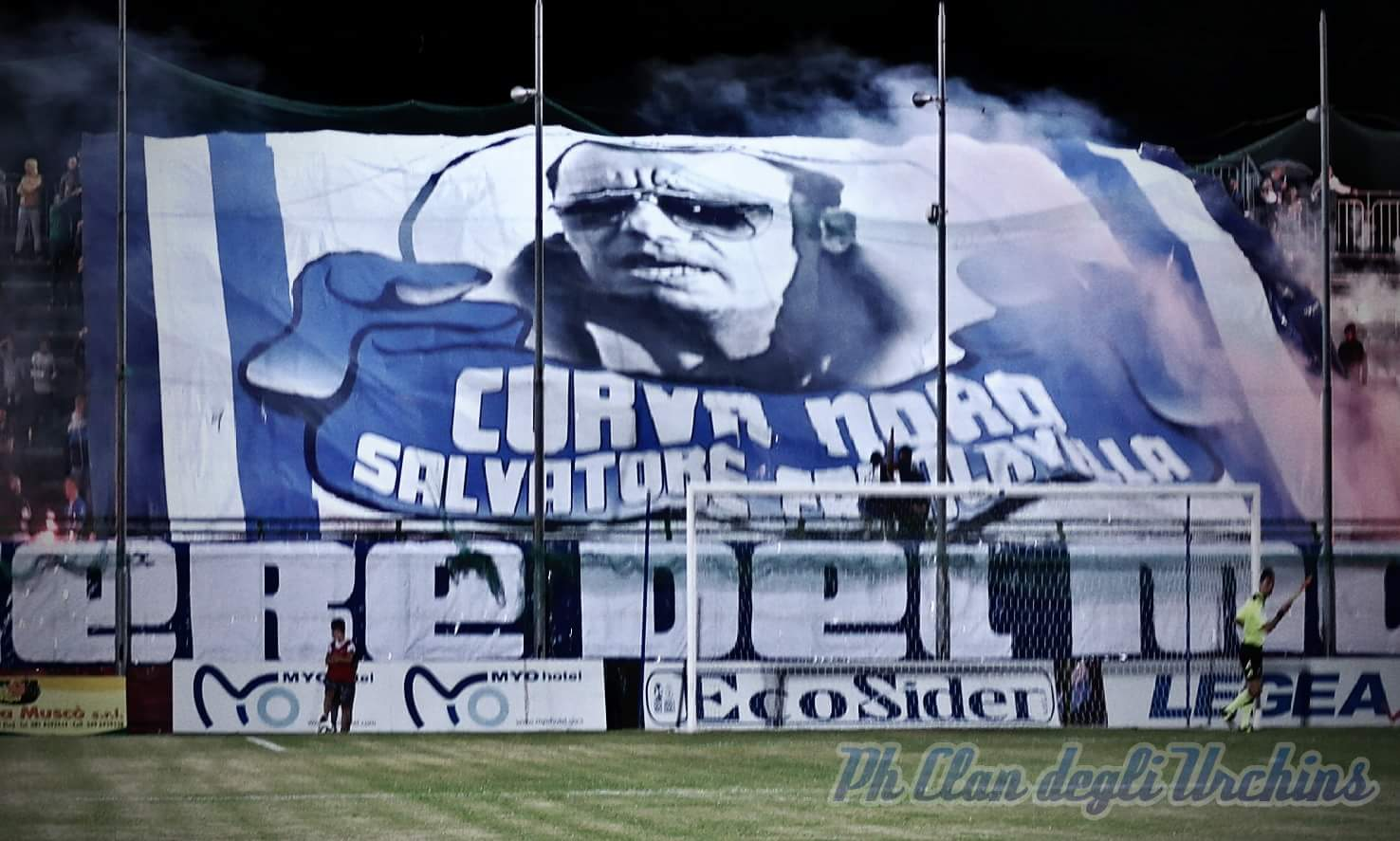 Ultras Paganese